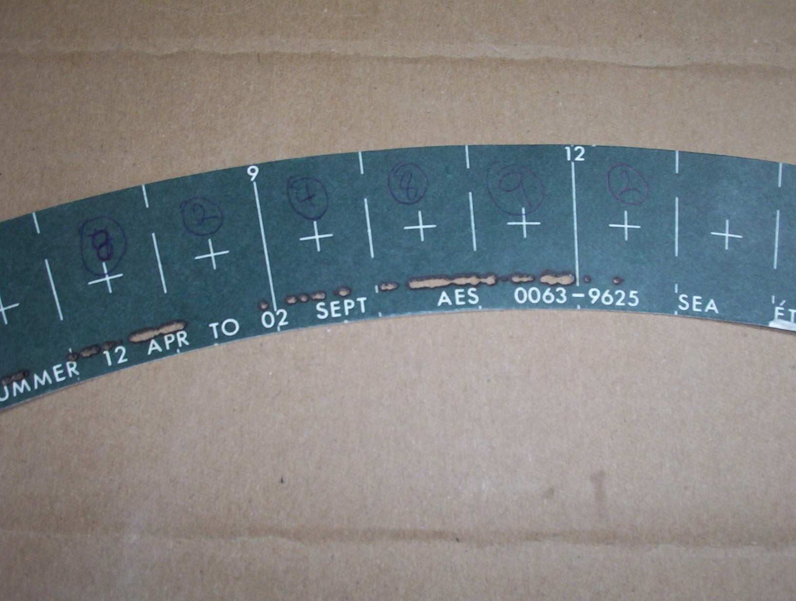 Close up of a summer sunshine card for the Campbell-Stokes recorder. The amount of sunshine is recorded in 10th's of an hour. Picture taken 09th August 2005 at Cambridge Bay, Nunavut, Canada.